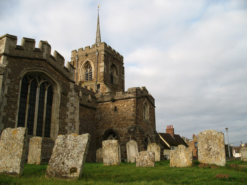 St Mary's Church in the village of Gamlingay, Cambridgeshire